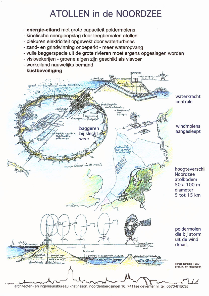 Design for atol islands in the North Sea, by Dutch architect Jón Kristinsson